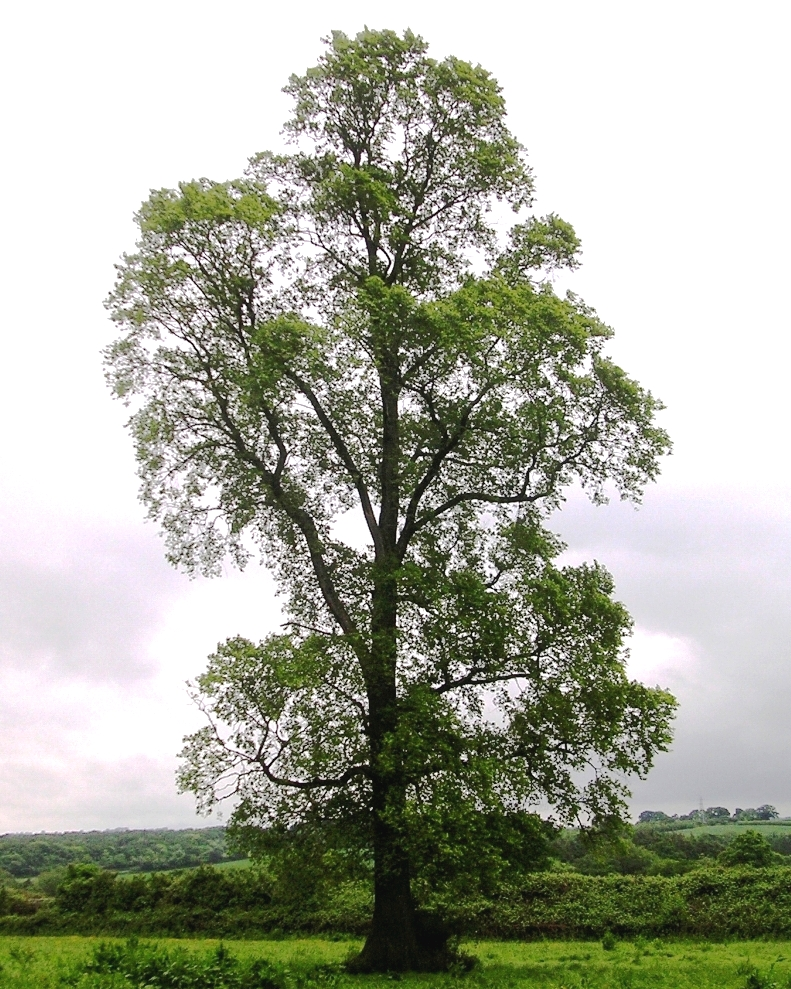 Photo of Ulmus minor subsp. minor at East Coker, UK, taken 2008